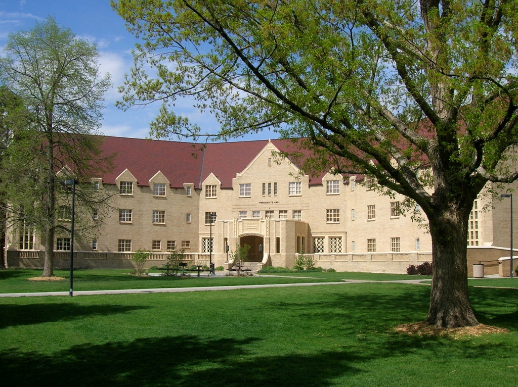 This is a photo of President's Hall at the former Colorado Women's College campus in Denver, Colorado. For a time, the campus belonged to the University of Denver. Now it is home to the Denver satellite campus of Johnson & Wales University.